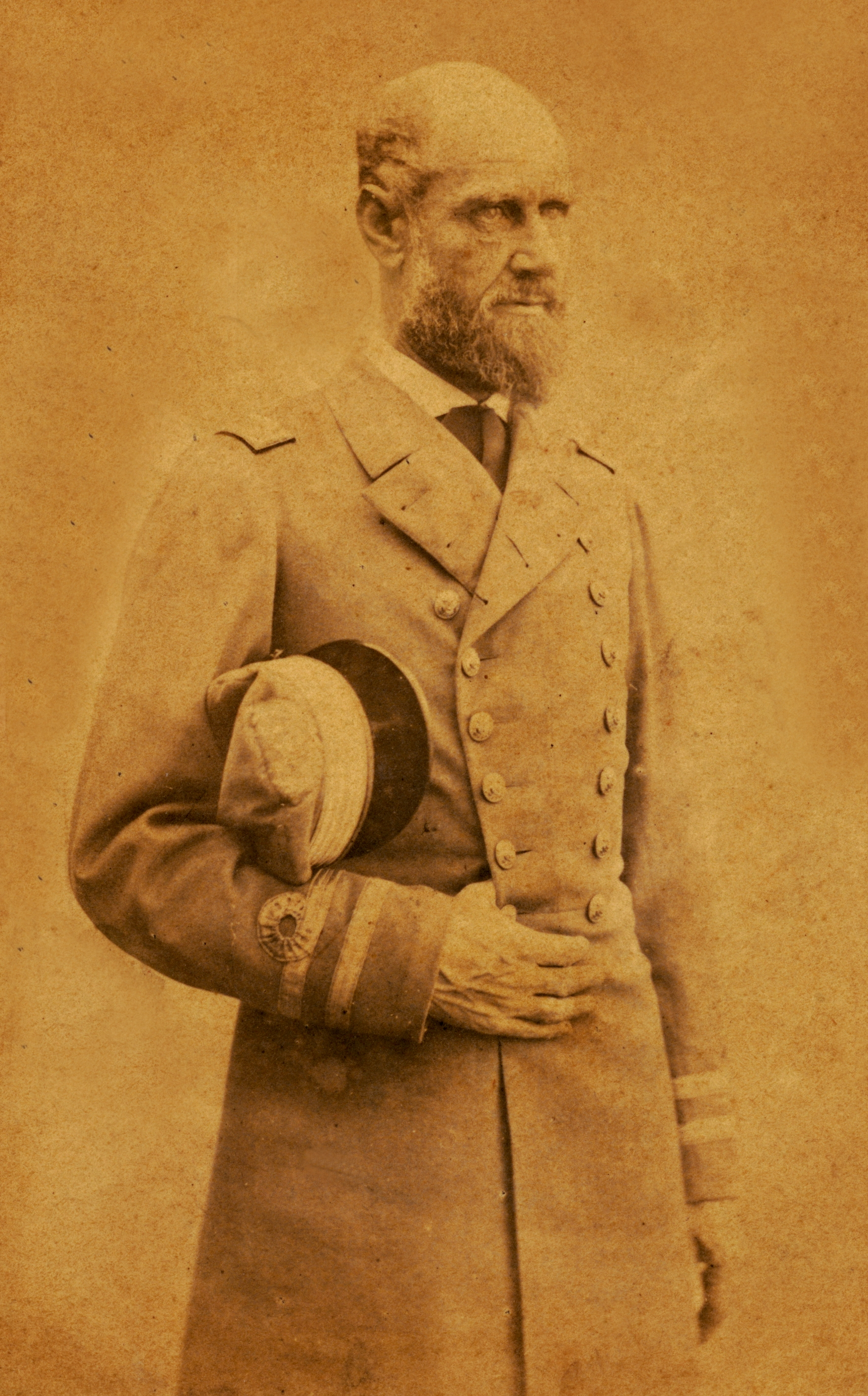 Commander Joseph Nicholson Barney of Confederate Navy in uniform